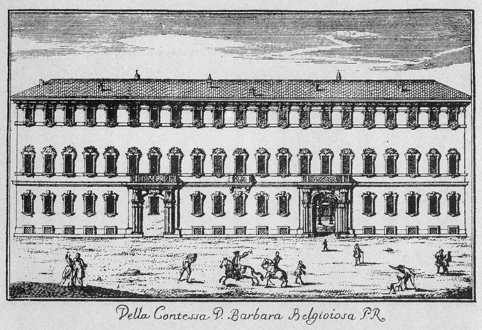 Facade of palazzo Belgioioso Mapelli, Milan